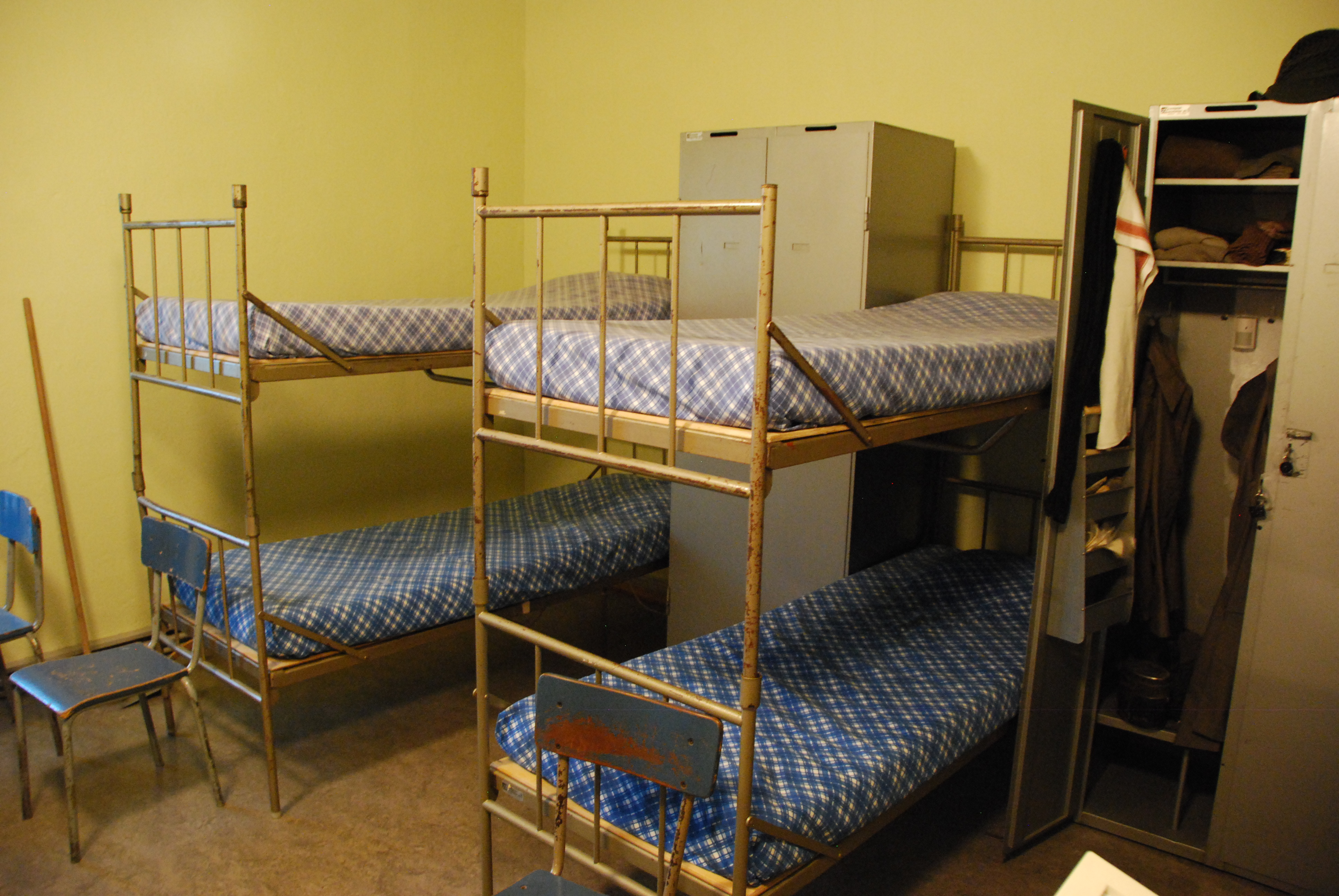 Interior from Swedish Barracks